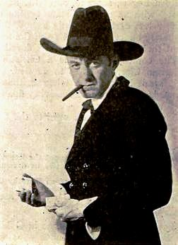 Still of Harry Carey from the American film The Outcasts of Poker Flat (1919), on page 1430 of the August 16, 1919 Motion Picture News.